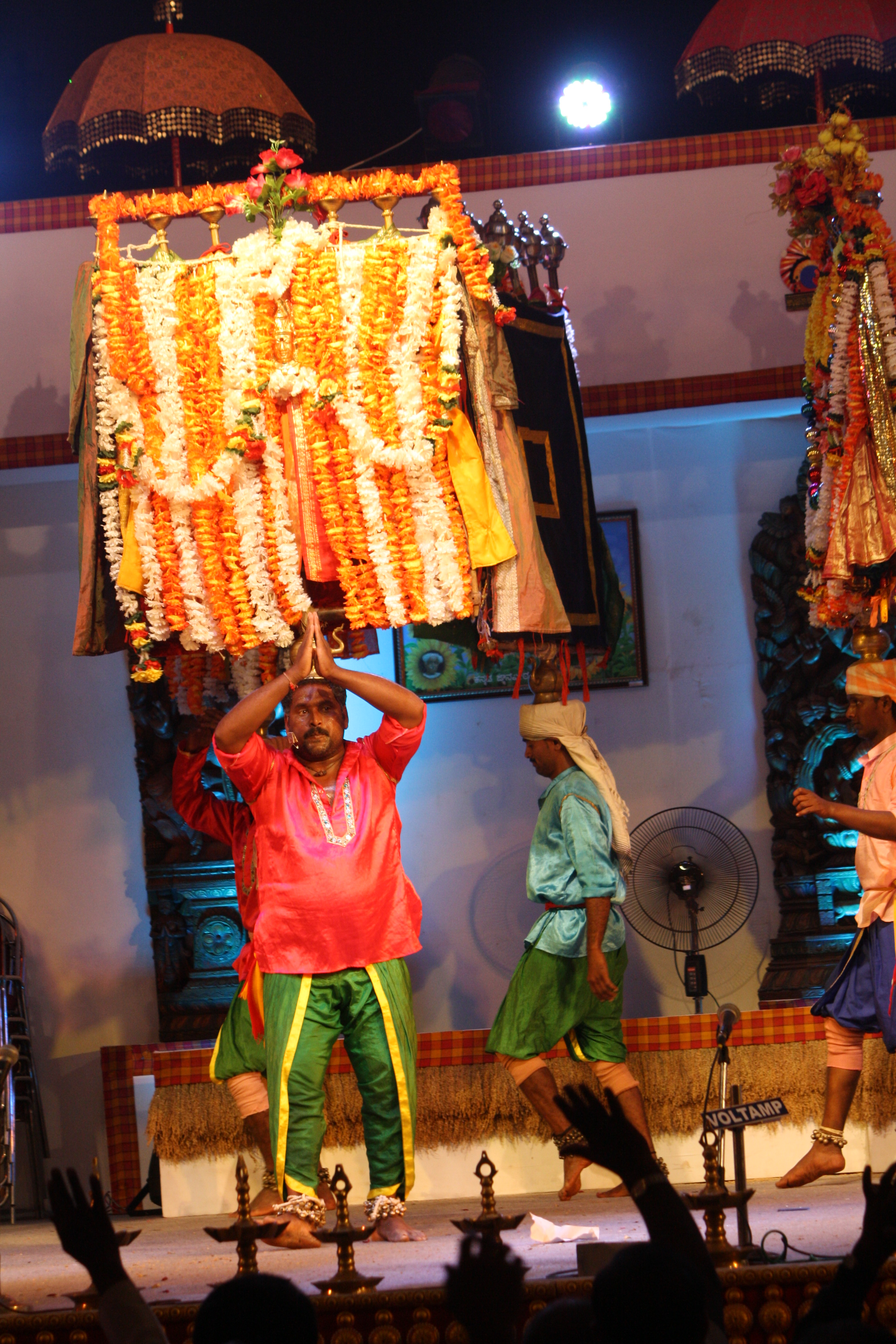 Pooja Kunitha, a folk performance form from Karnataka, Indiaಕನ್ನಡ: ರ್ನಾಟಕದ ಜಾನಪದ ಕಲೆ ಪೂಜಾ ಕುಣಿತ